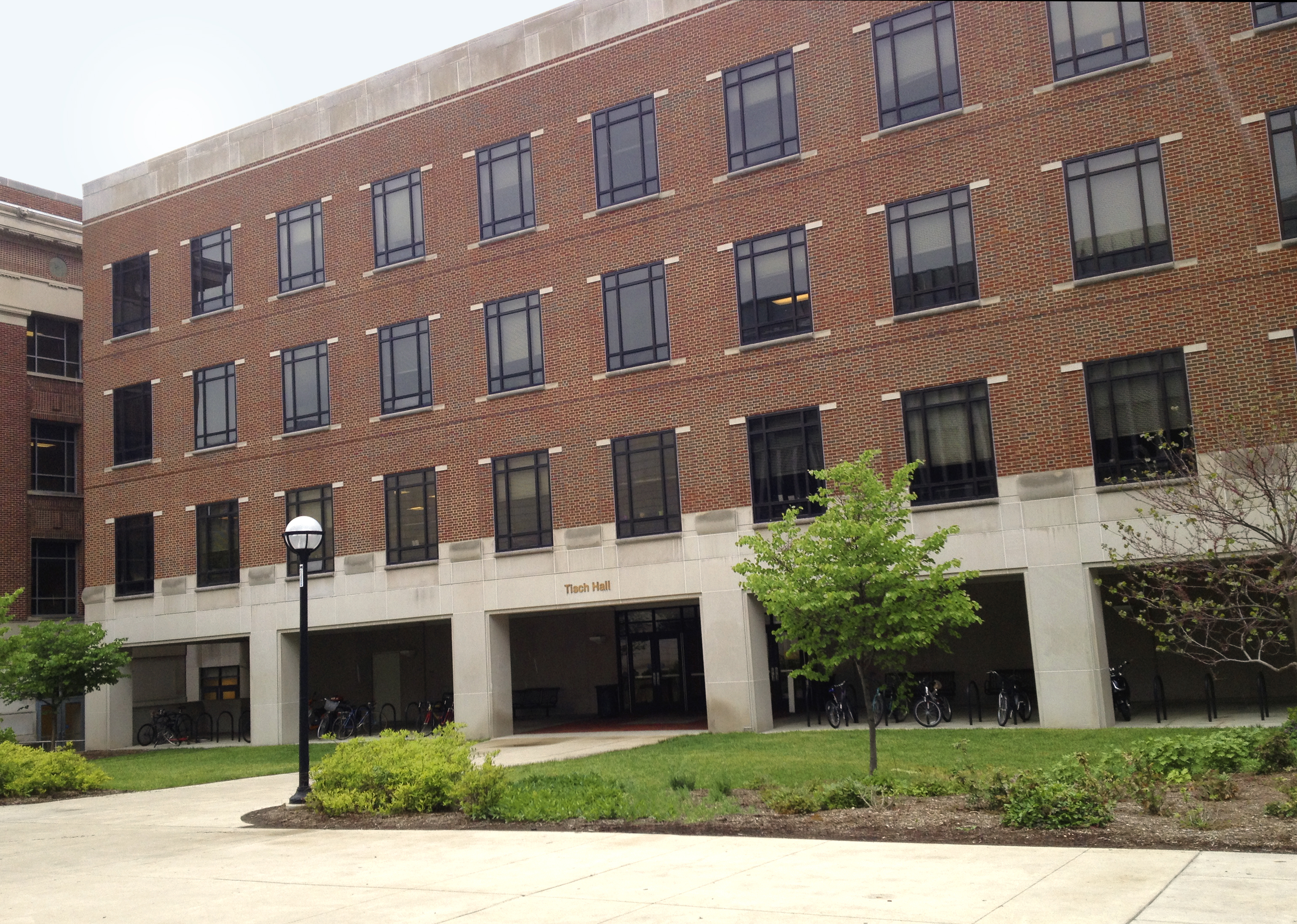 Tisch Hall, University of Michigan, Ann Arbor (May 2013).